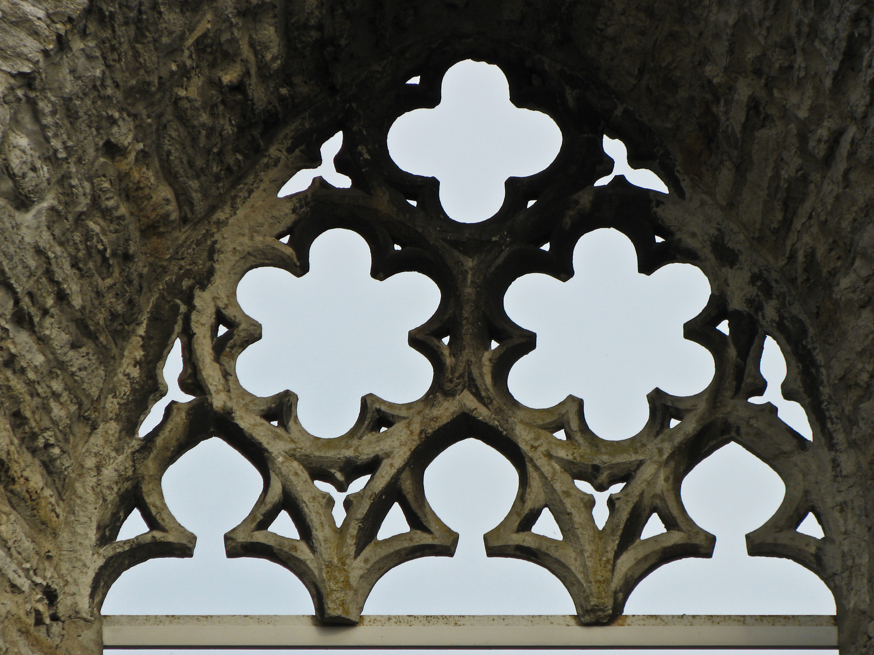 Detail of the ruins of Holy Birgitta Monastery in Tallinn, Estonia.